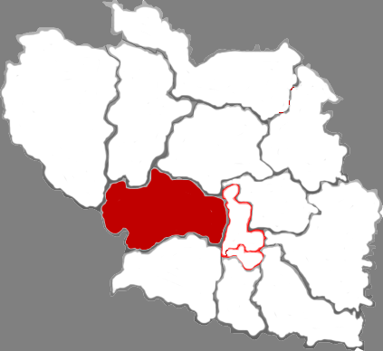 Location of Tunliu district in Changzhi City, China